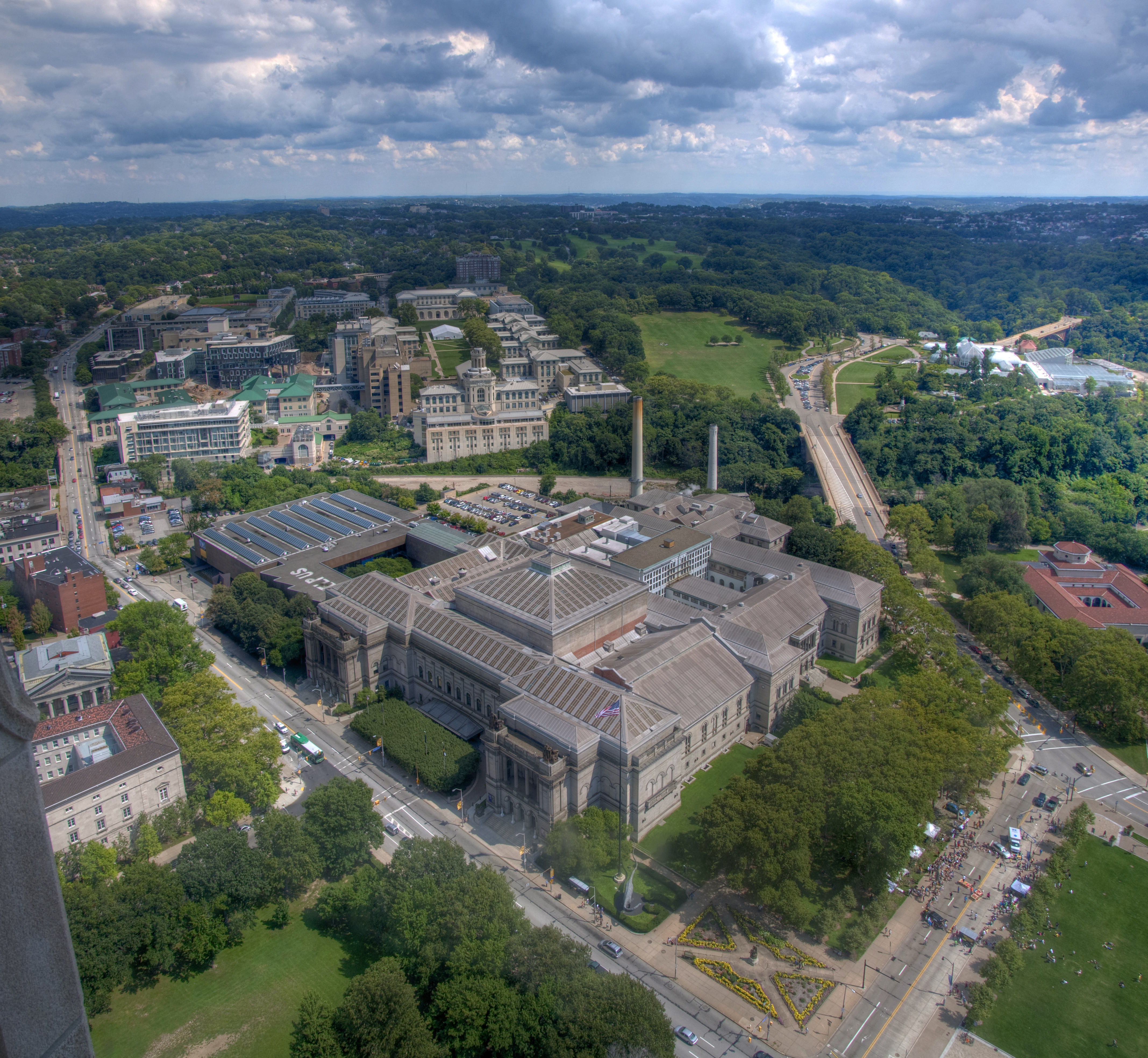 Shot with Nikon D90. Edited in Photoshop CS4. Window smudges made editing a bit tricky...